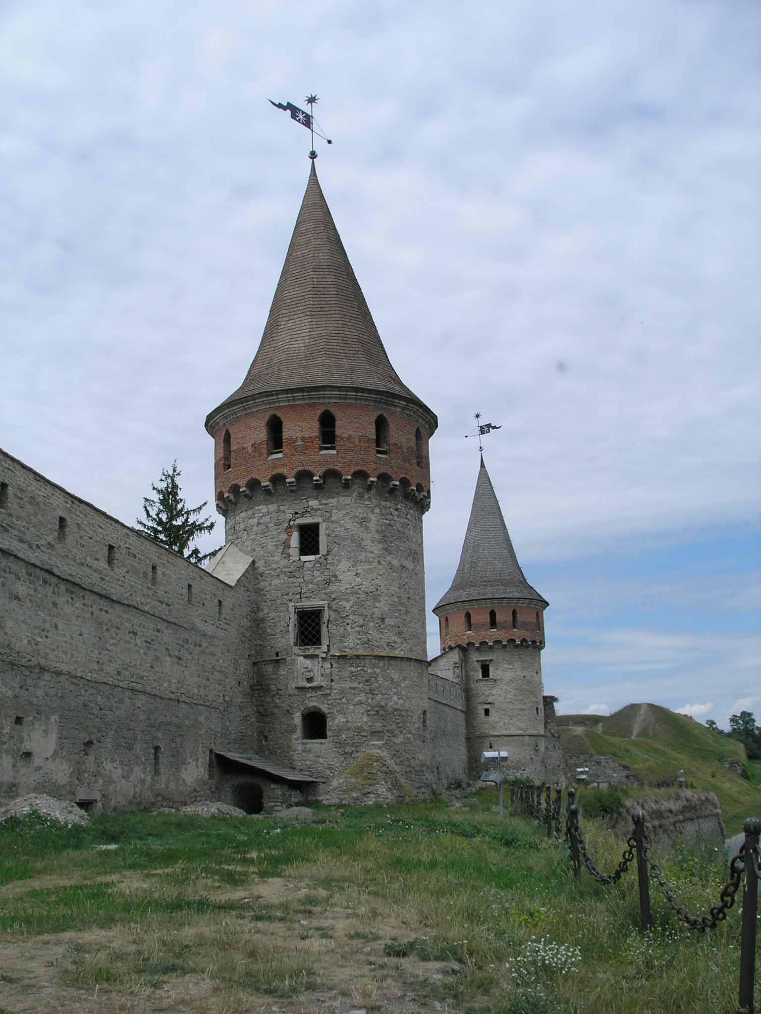 The Kamianets-Podilskyi Castle in Kamianets-Podilskyi, Ukraine